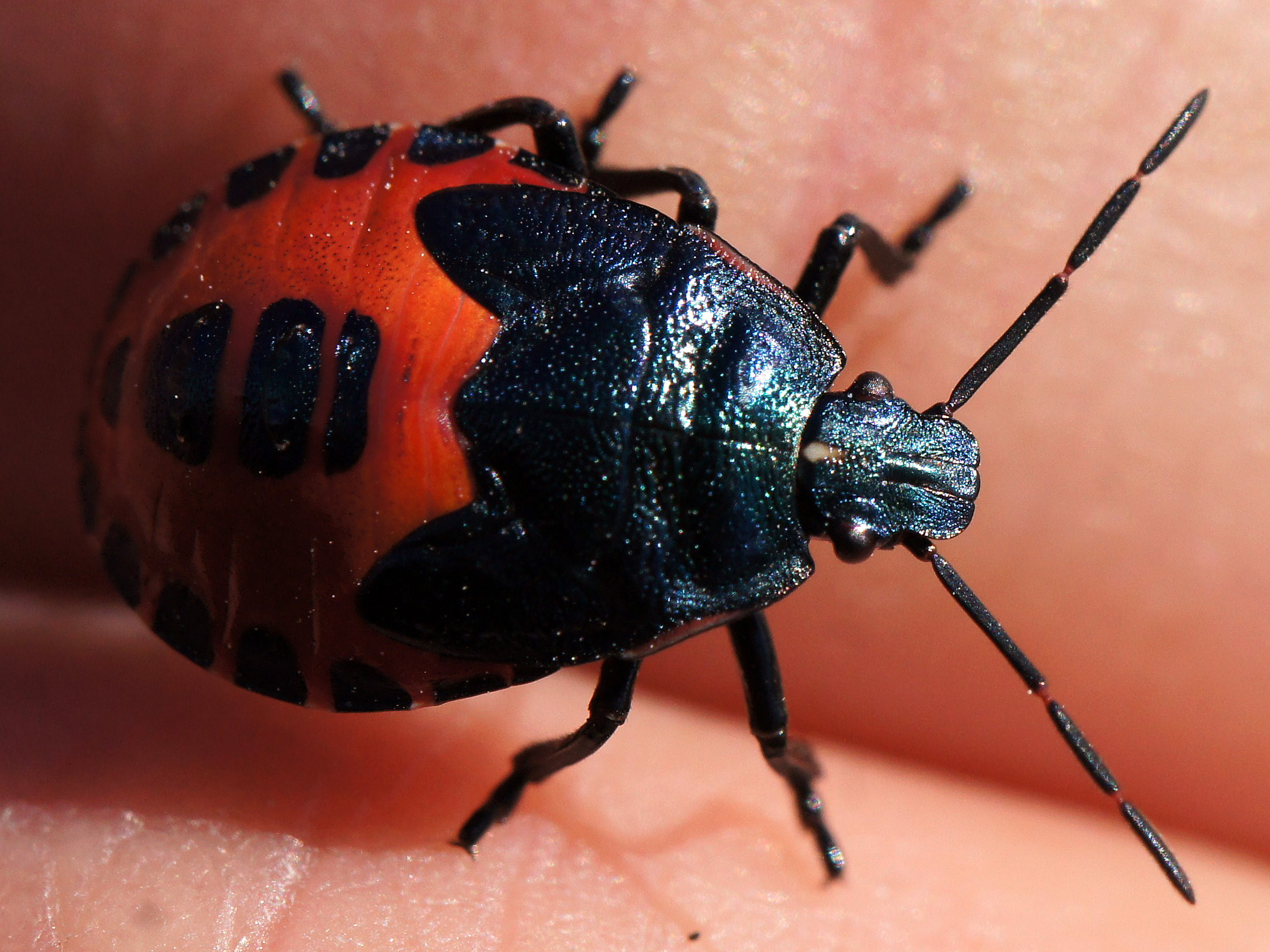 Jalla dumosa, final instar nymph. Picture taken in Skåne, Sweden.